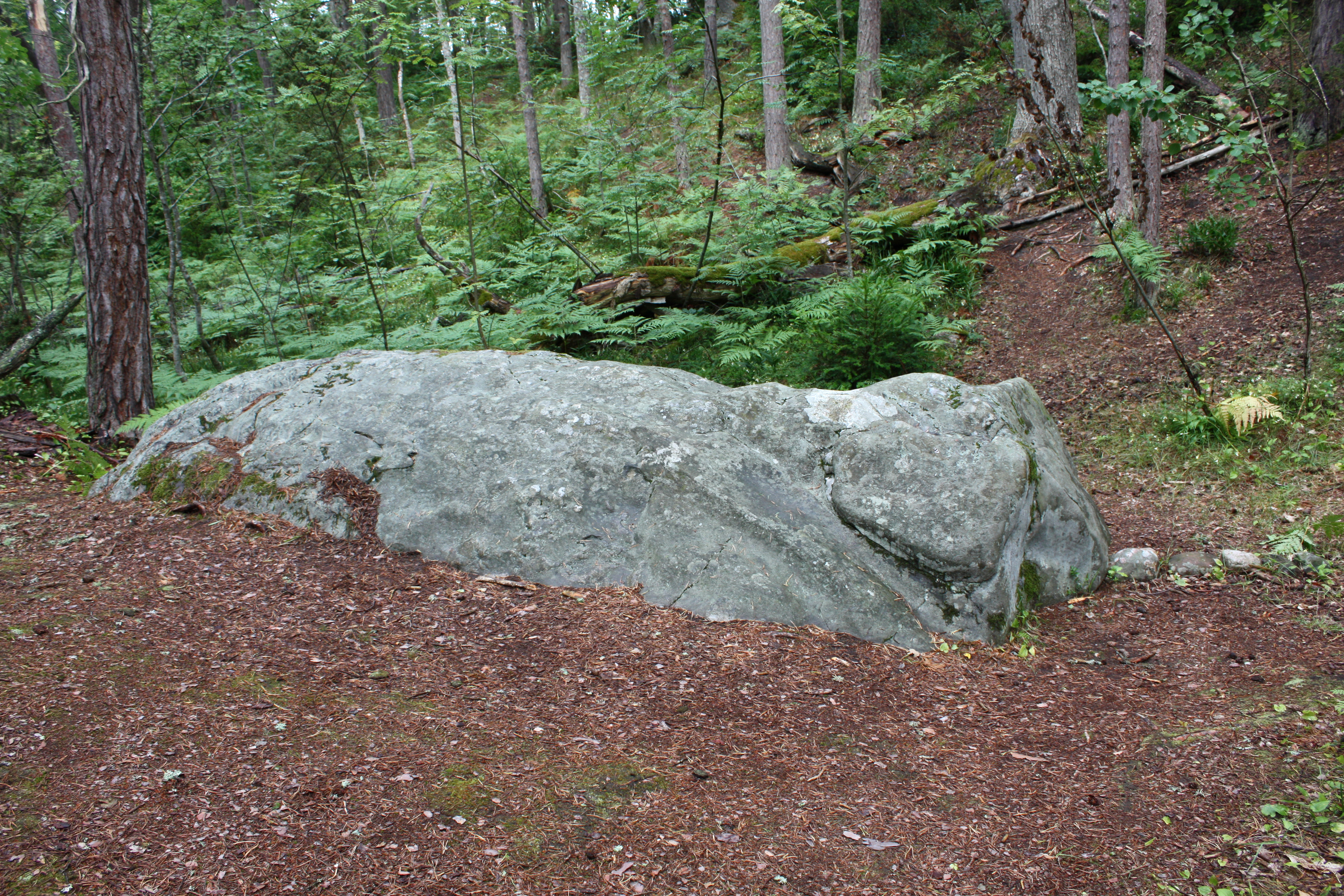 The glacial erratic called "the elephant" in Gotska Sandön.